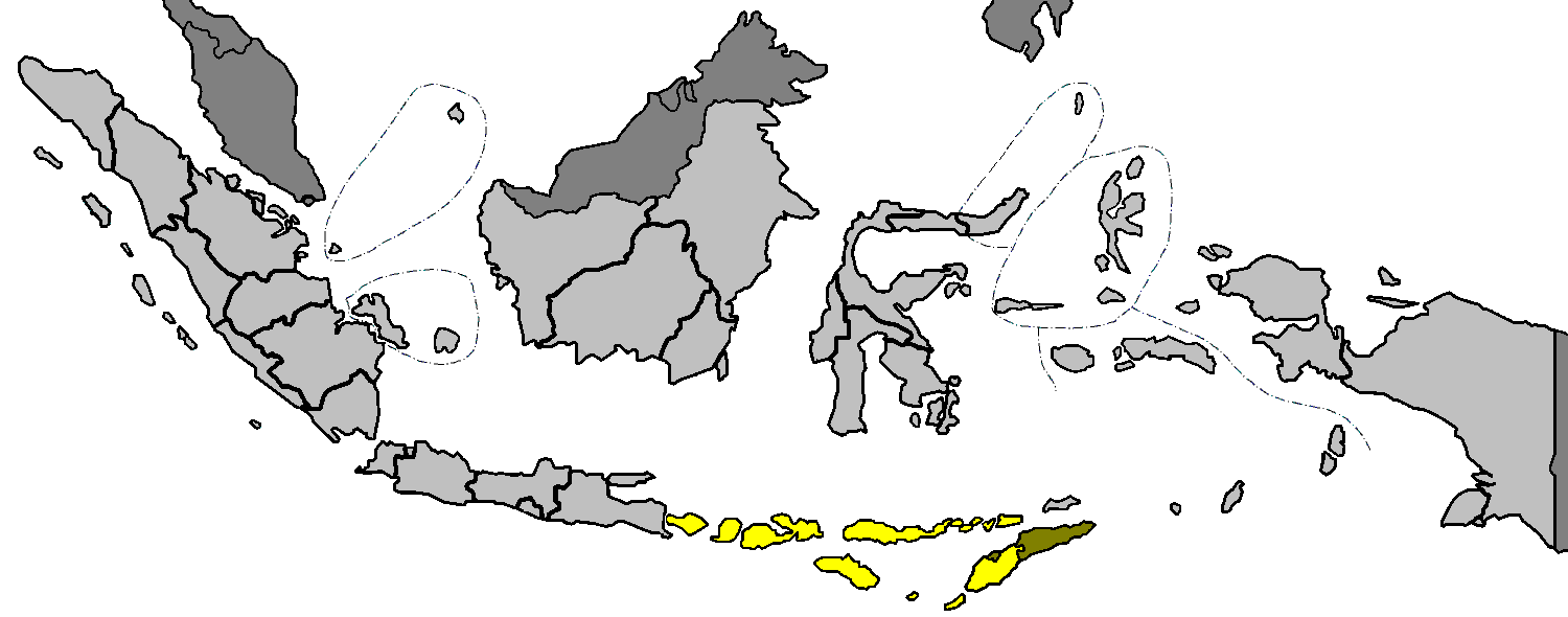 locator map of Indonesian islands